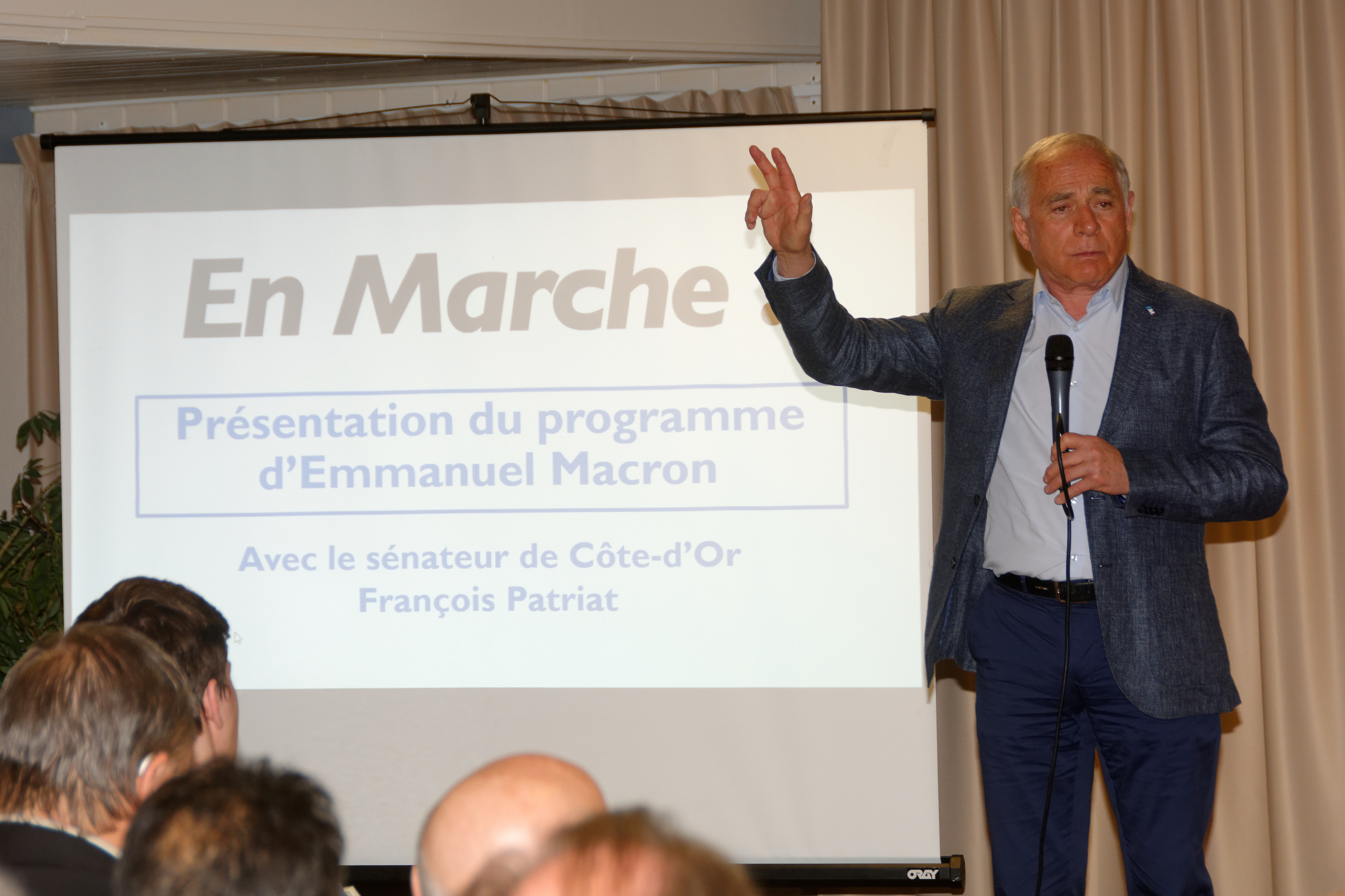 Personality rights warningAlthough this work is freely licensed or in the public domain, the person(s) shown may have rights that legally restrict certain re-uses unless those depicted consent to such uses. In these cases, a model release or other evidence of consent could protect you from infringement claims.